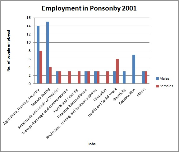 People employed in different sectors (data from 2001 census)